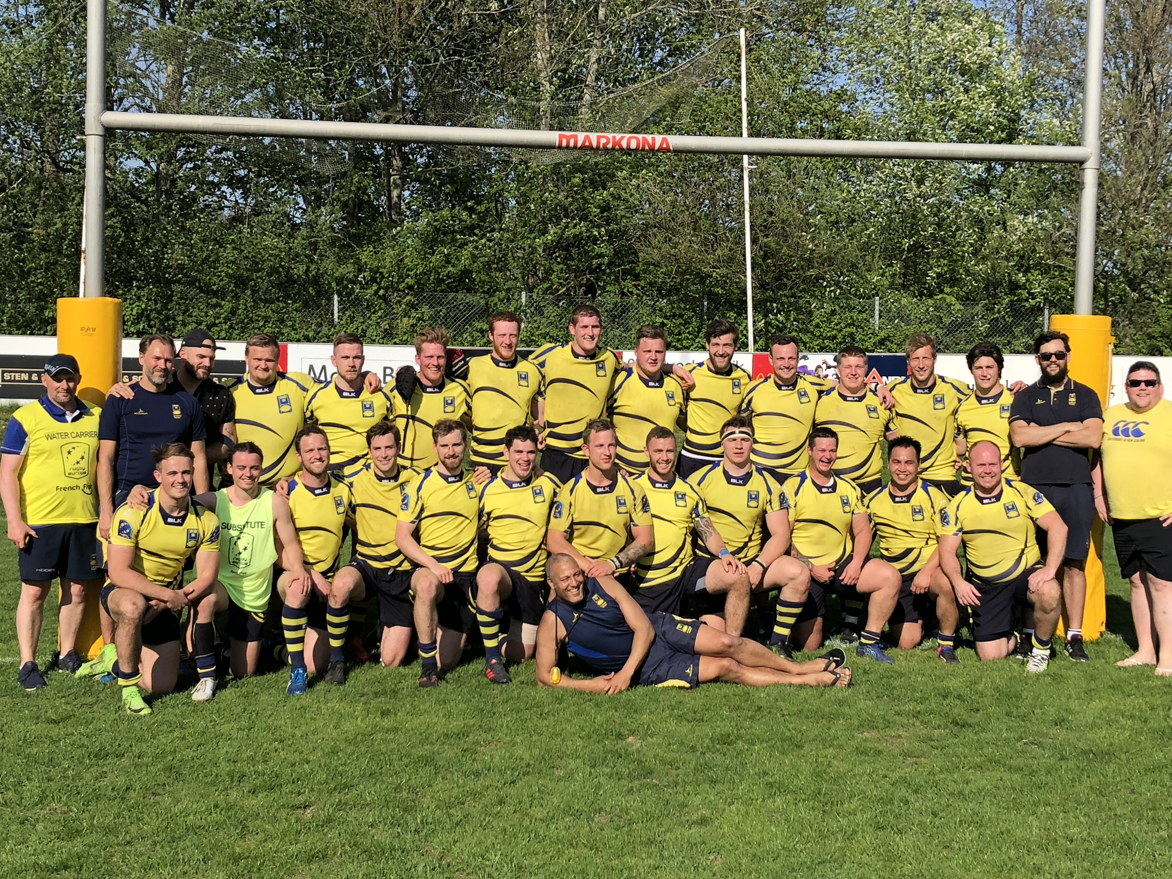 Sweden XV after the win against Latvia, May 2018